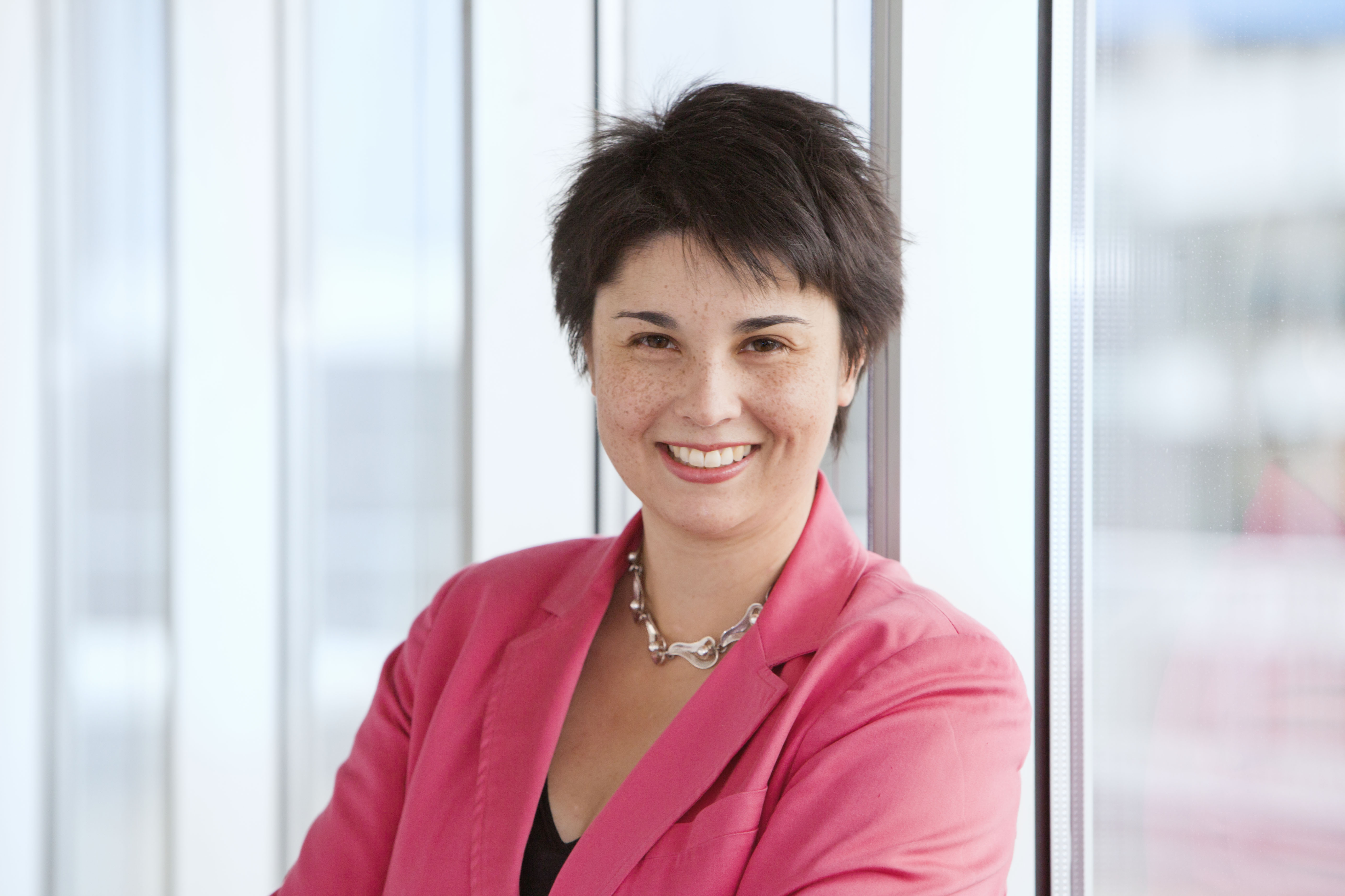 SA Lawyer of the Year - Planning & Environmental Law 'Best Lawyers Australia'.